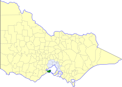 Location of the former Rural City of Bellarine within Victoria.